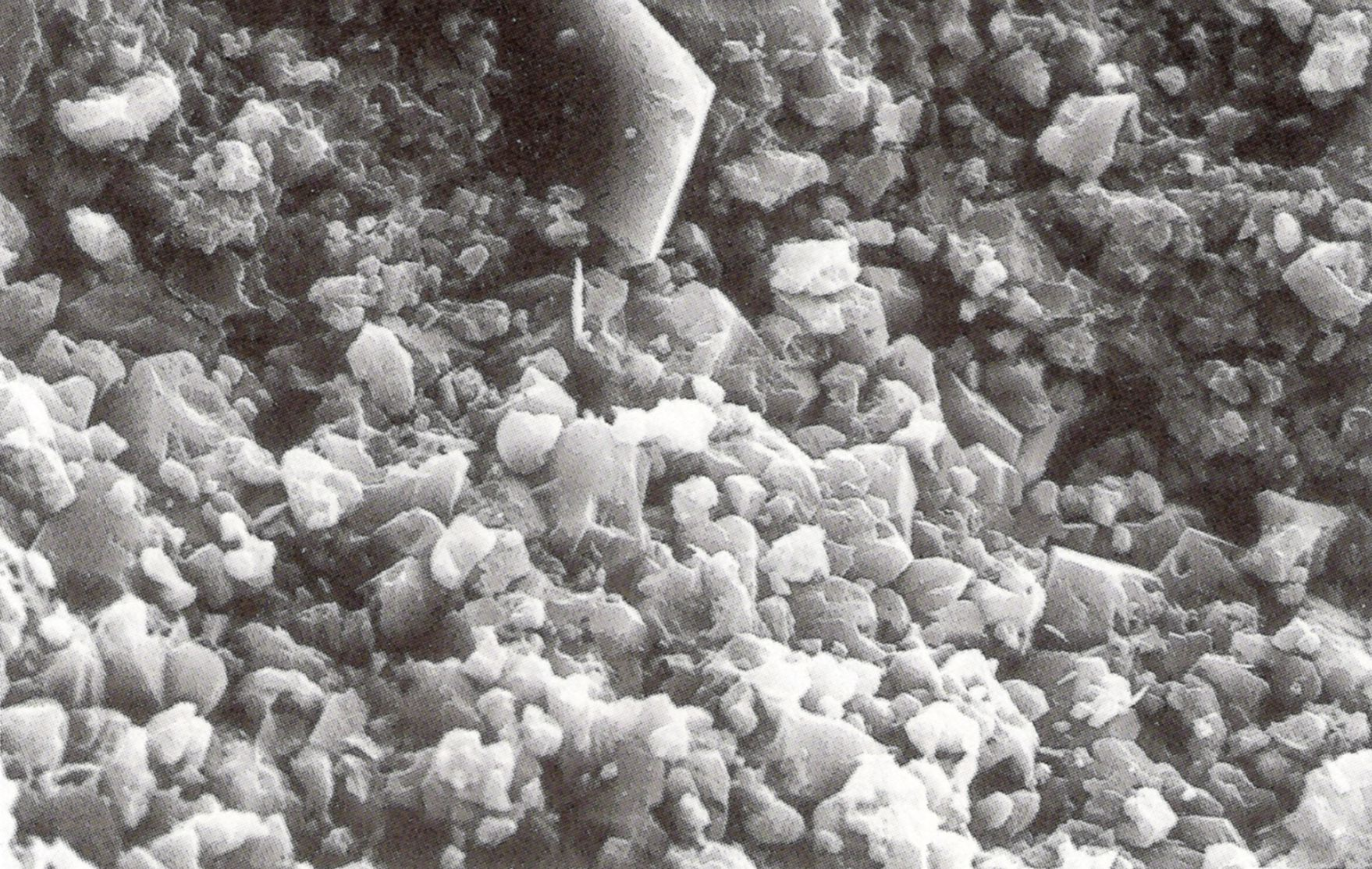 Photo by electron microscope. Structure of the jura-limestone. The sample is from a quarry in the town of Solnhofen region.The core size of 1-4 μ.